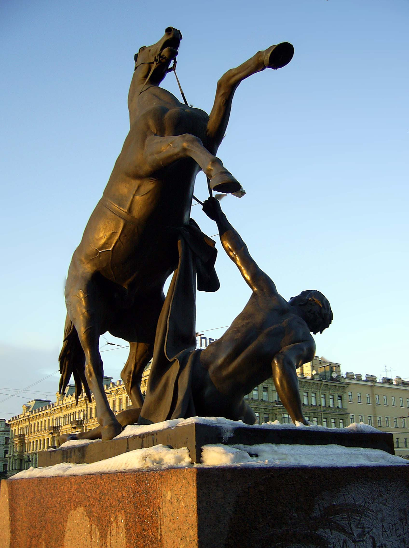 Anichkov Bridge in Saint Petersburg. One of the statues by Peter von Klodt .